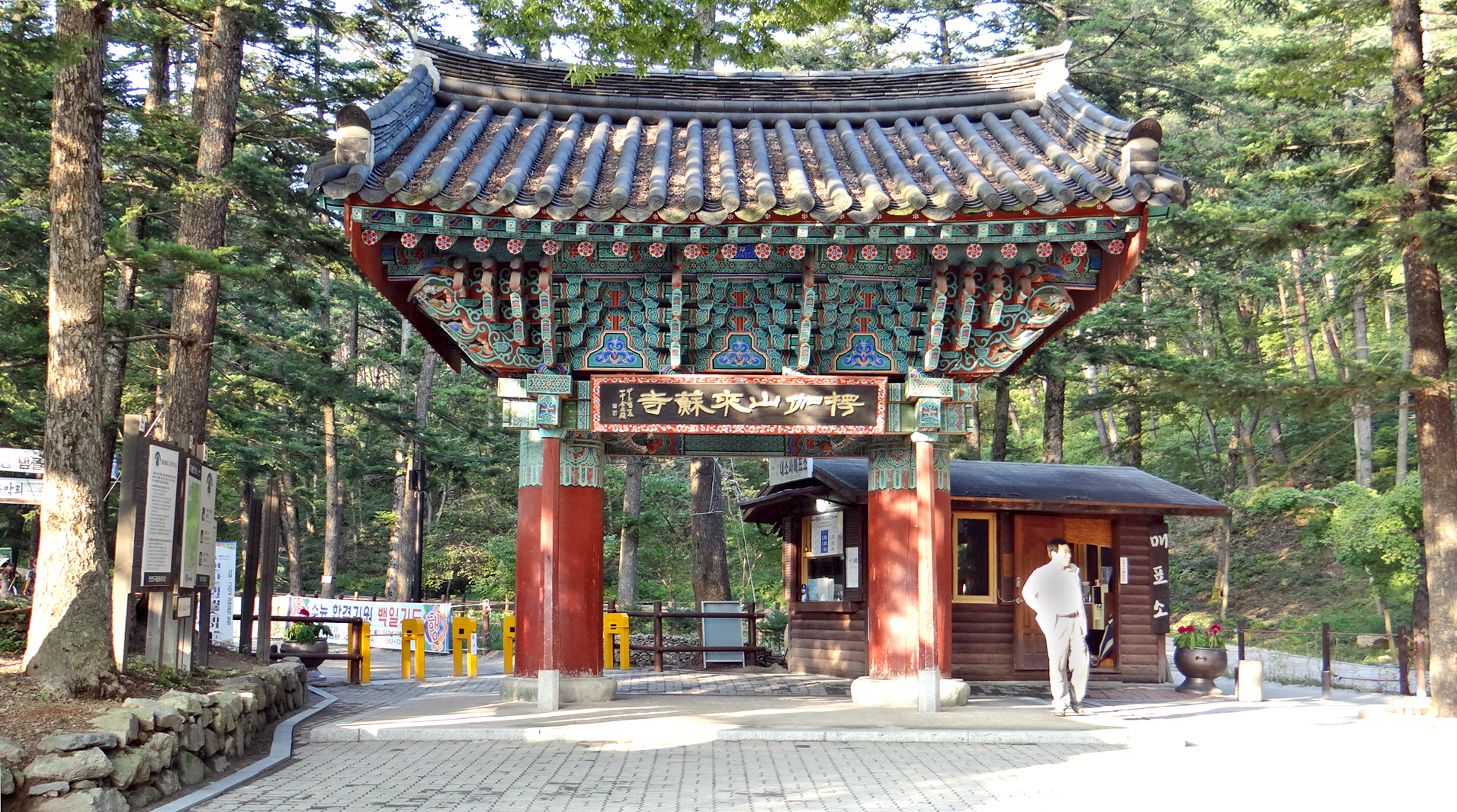 Naesosa Iljumun, or one piller gate, is the first gate into the temple grounds - Naesosa in Buan County, North Jeolla Province, South Korea was built in 633 CE and was rebuilt in 1633. Originally called Soraesa, around the Imjin War the temple changed its name to Naesosa.